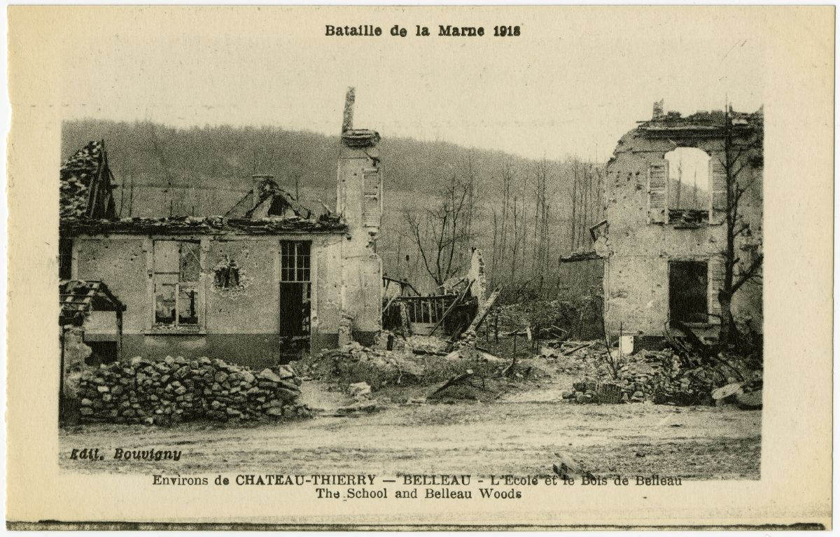 Accession Number: 1969:0301:0001 Maker: Bouvigny (French) Title: The School and Belleau Woods Date: 1918 Medium: collotype print Dimensions: Image: 7.5 x 11.9 cm Overall: 8.9 x 14 cm George Eastman House Collection General – information about the George Eastman House Photography Collection is available at For information on obtaining reproductions go to